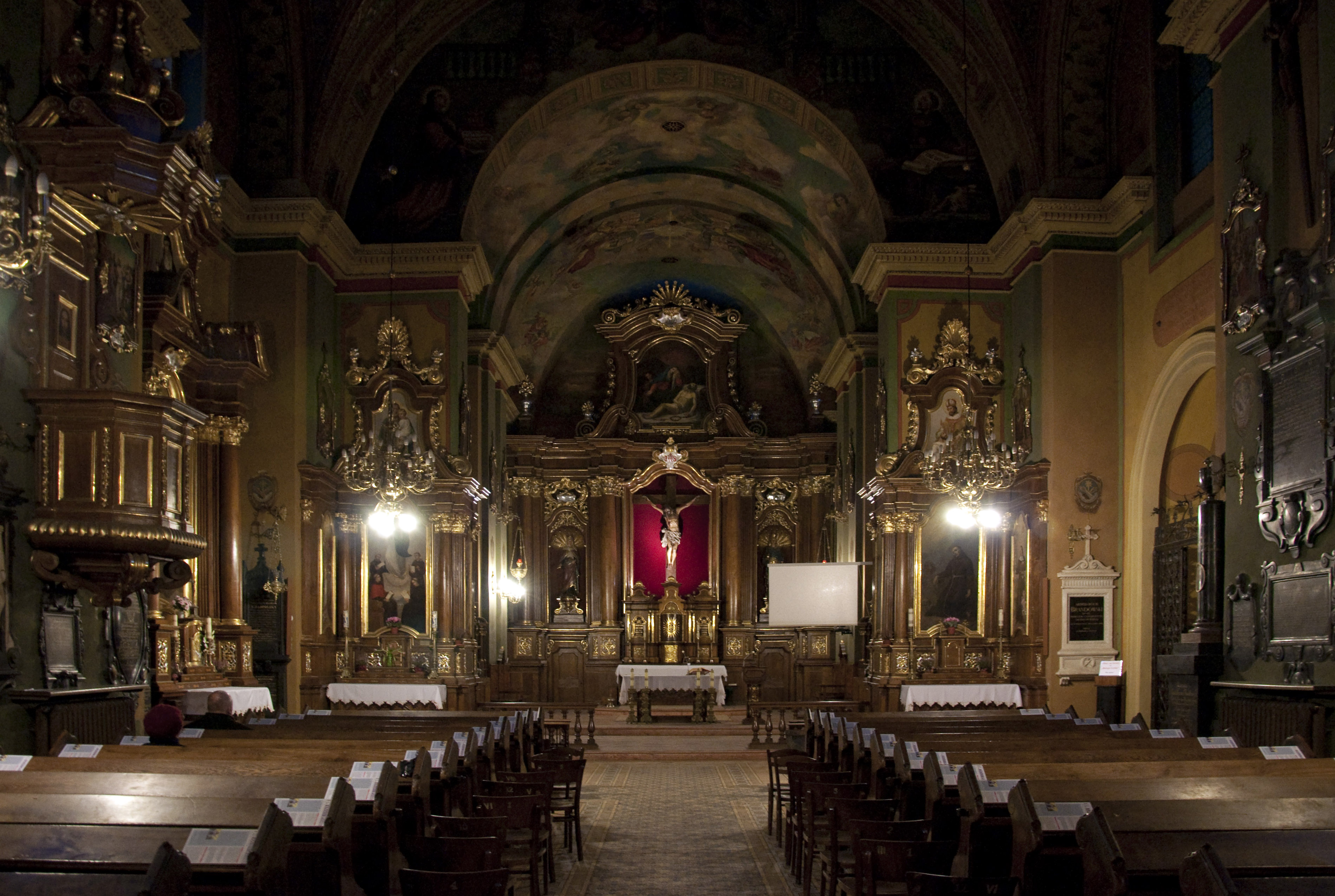 Church of St. Casimir the Prince in Kraków